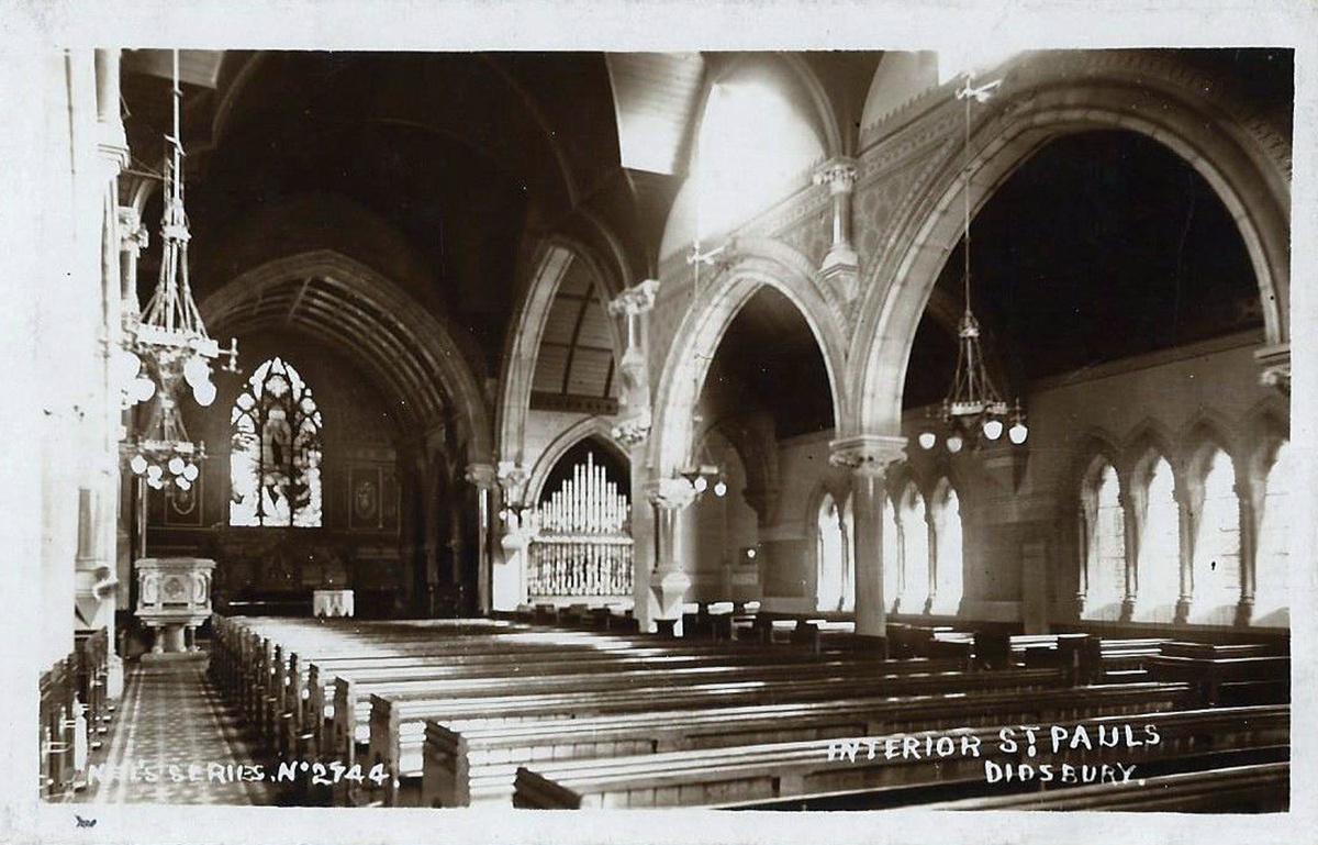 St Pauls Church Interior, Didsbury (1).jpg